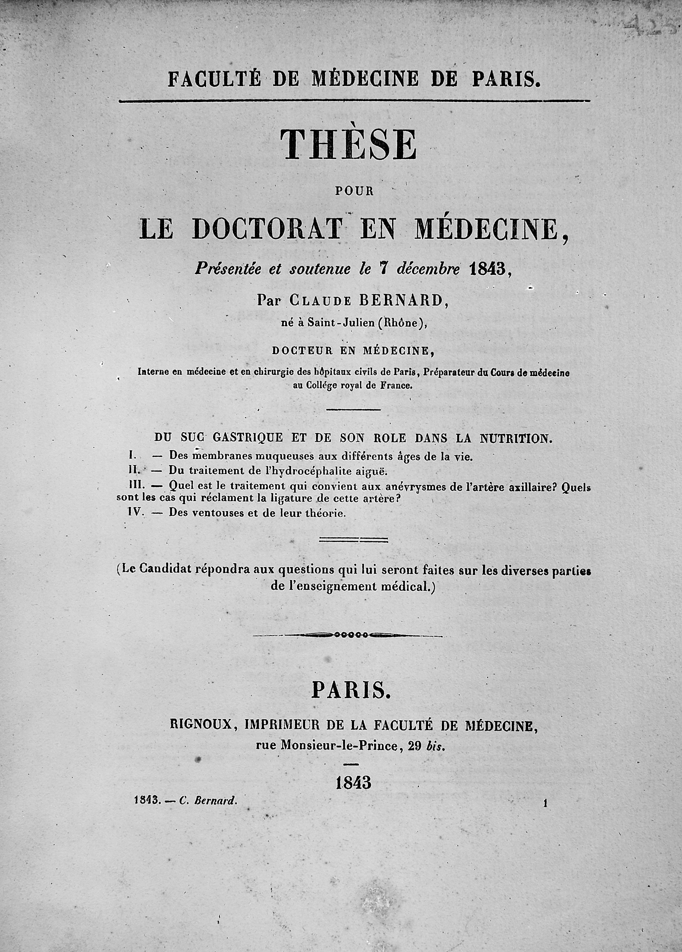 Title page Rare Books Keywords: Nutrition; Claude Bernard